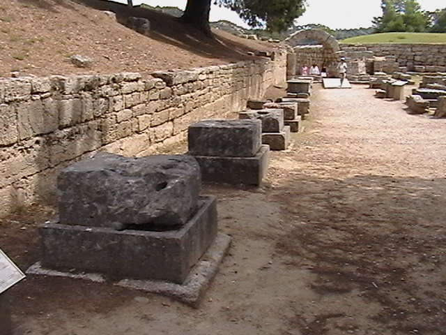 The Bases of Zanes at Olympia, Greece. Statues of Zeus were erected on these bases, paid for by fines imposed on those who were found to be cheating at the Olympic Games. The names of the athletes were inscribed on the base of each statue to serve as a warning to all.